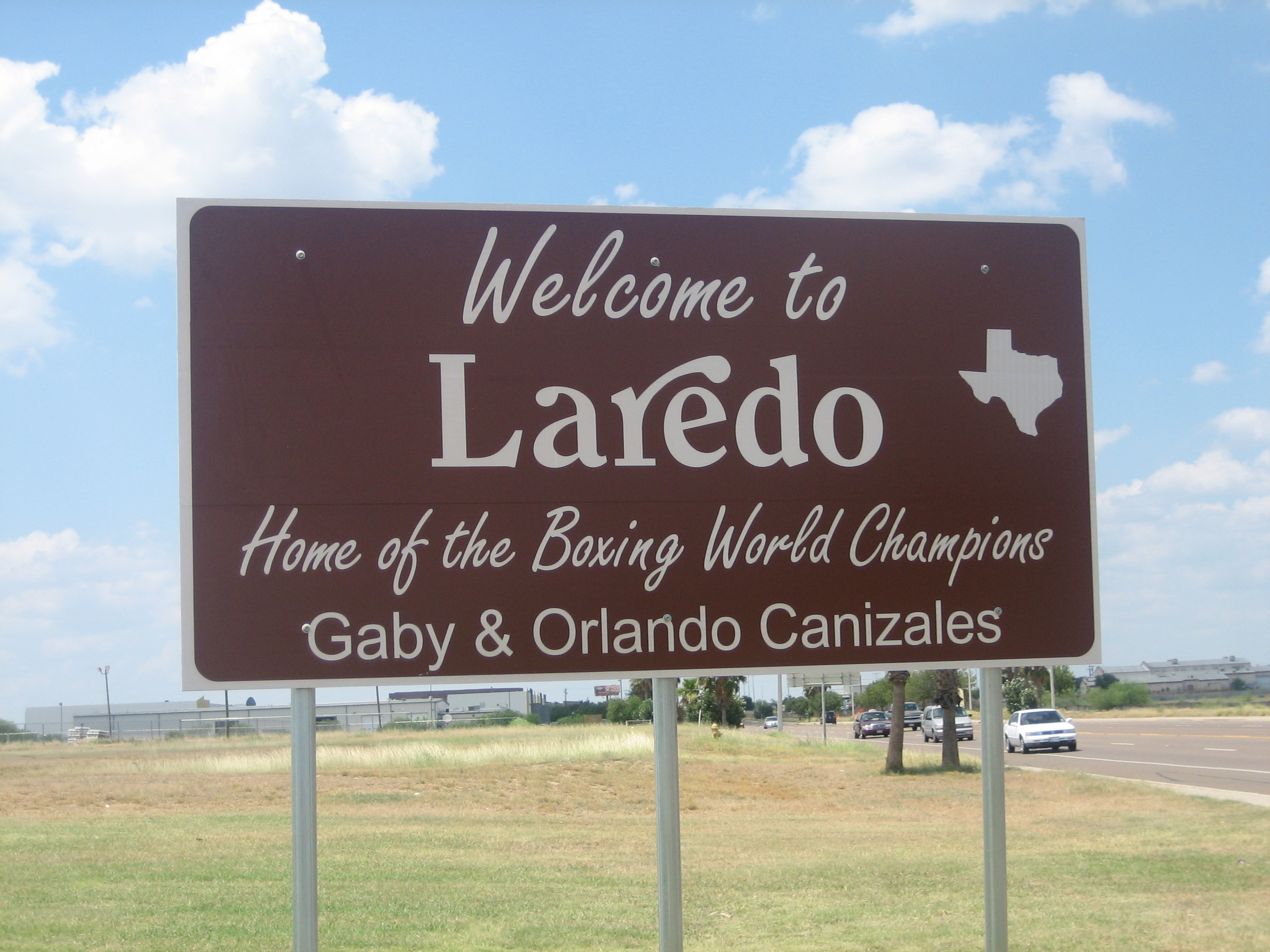 I took photo on July 3, 2009.